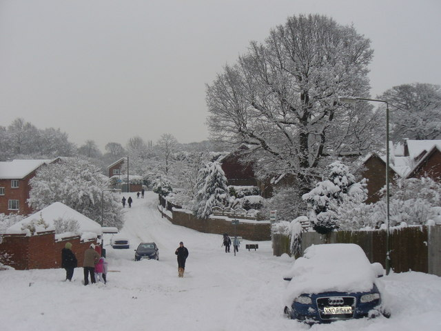 Hareward Road Part of the circular main road running through Merrow Park, a 1980s residential estate. The two cars nearest camera looks like they have been abandoned in the snow!